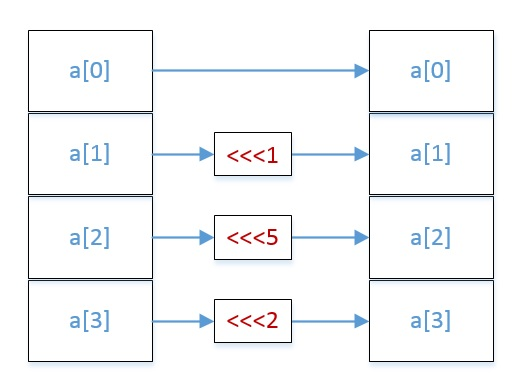 Operation Pi1 of NOEKEON cipher